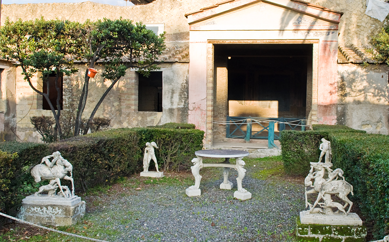 The deer's house, Herculaneum